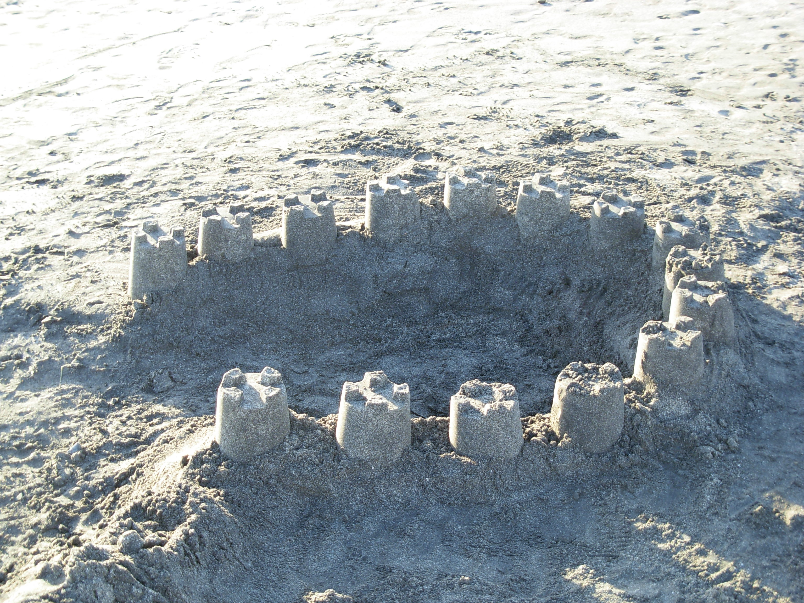 Sand castle, Tenerife.